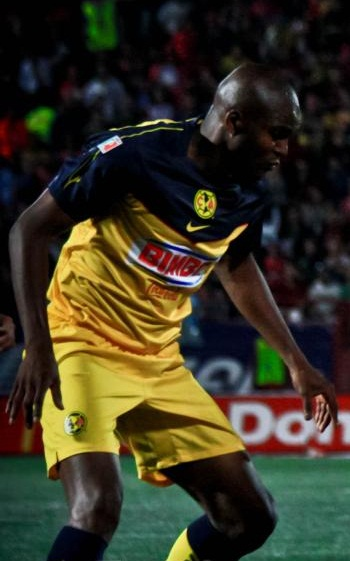 America player Aquivaldo Mosquera